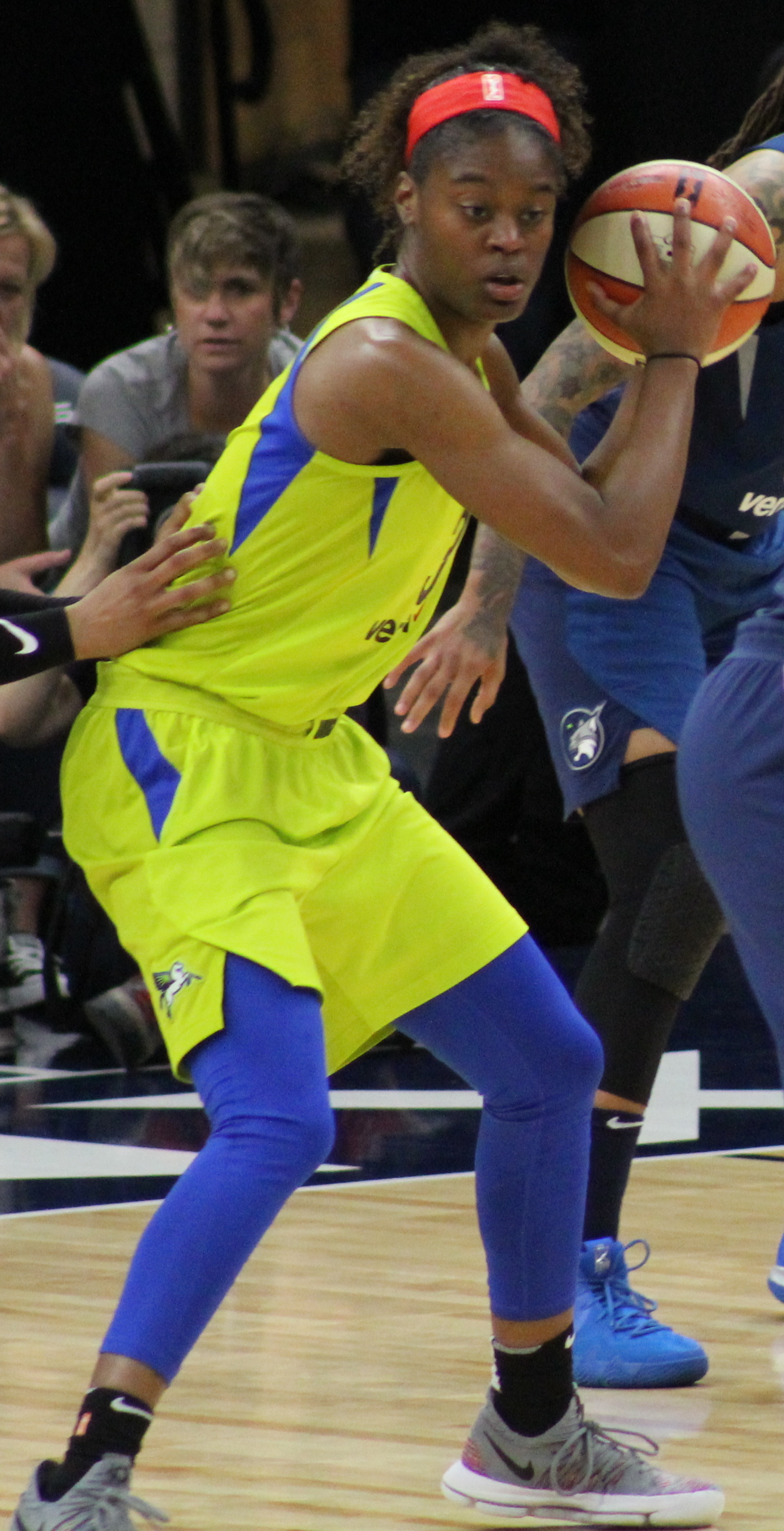 Kaela Davis of the Dallas Wings in 2018